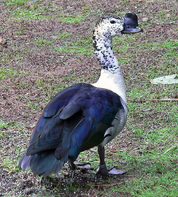 Picture of an African comb duck. (Sarkidiornis melanotos) Taken at Disney's Animal Kingdom.